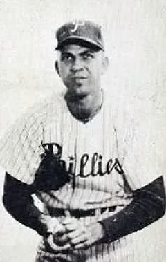 A Bowman Gum baseball card of Andy Hansen